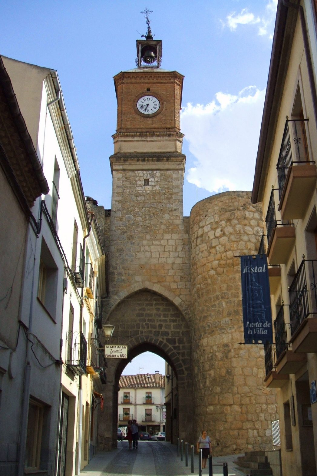 Puerta de la Villa, en Almazán (Soria)